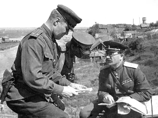 The soviet marshal of armoured troops Pawel Rotmistrow giving commands to subordinate officers at Borissov (Belarus)